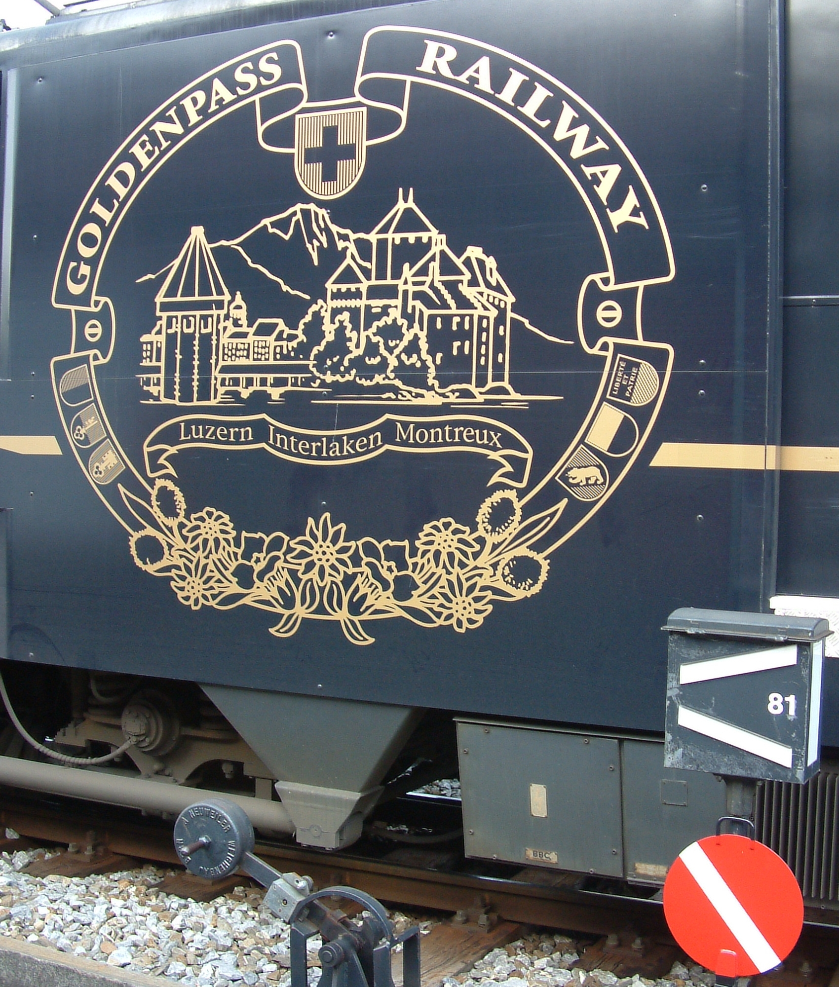 MOB Golden Pass Logo at the GDe 4/4 6002